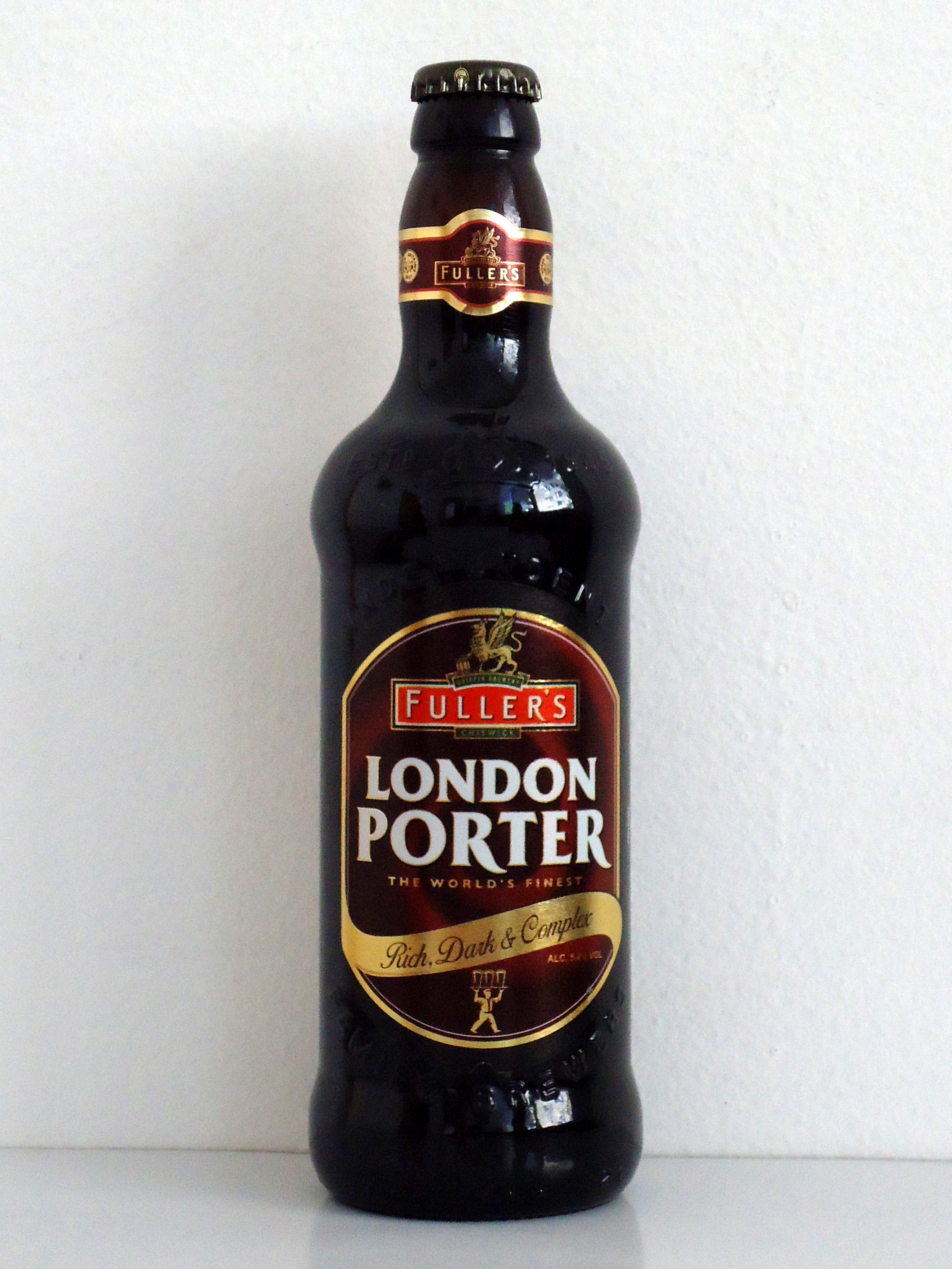 Fuller's London Porter